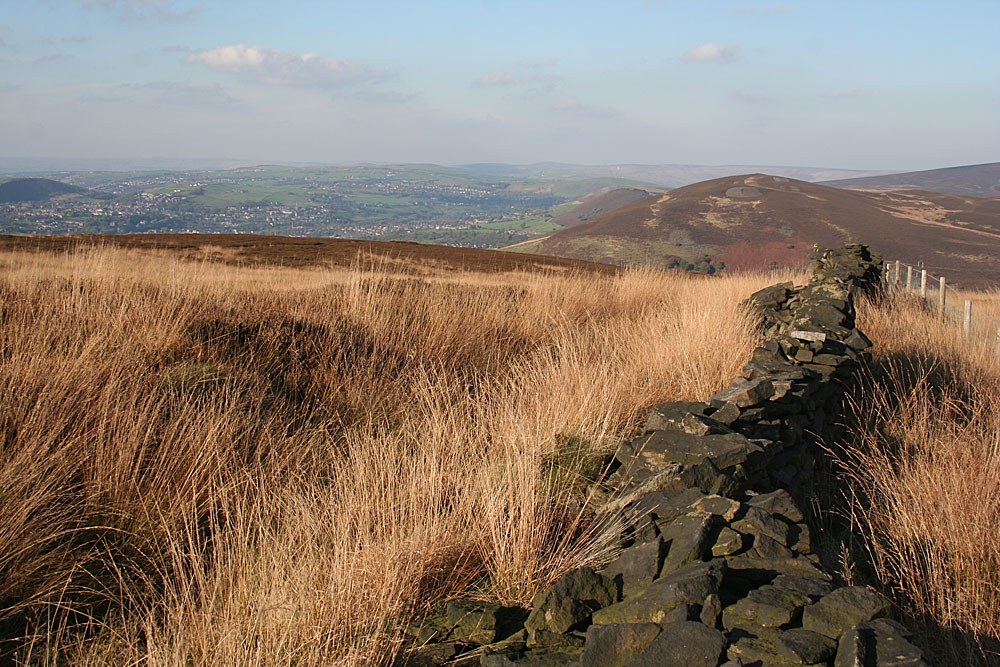 Harridge Pike From Hollingworthhall Moor